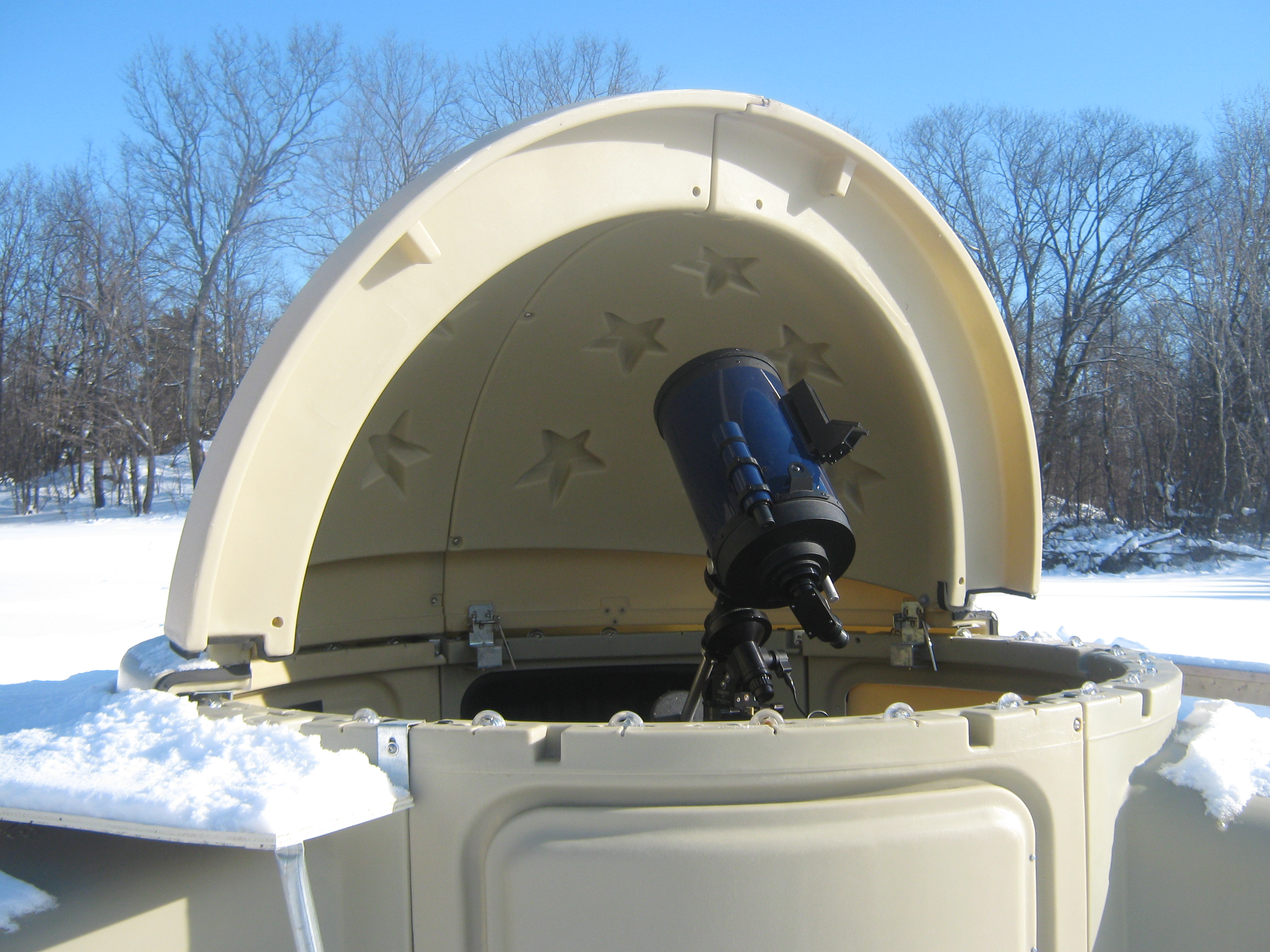 The new Losmandy G11 mount installed in the Killarney Provincial Park Observatory.